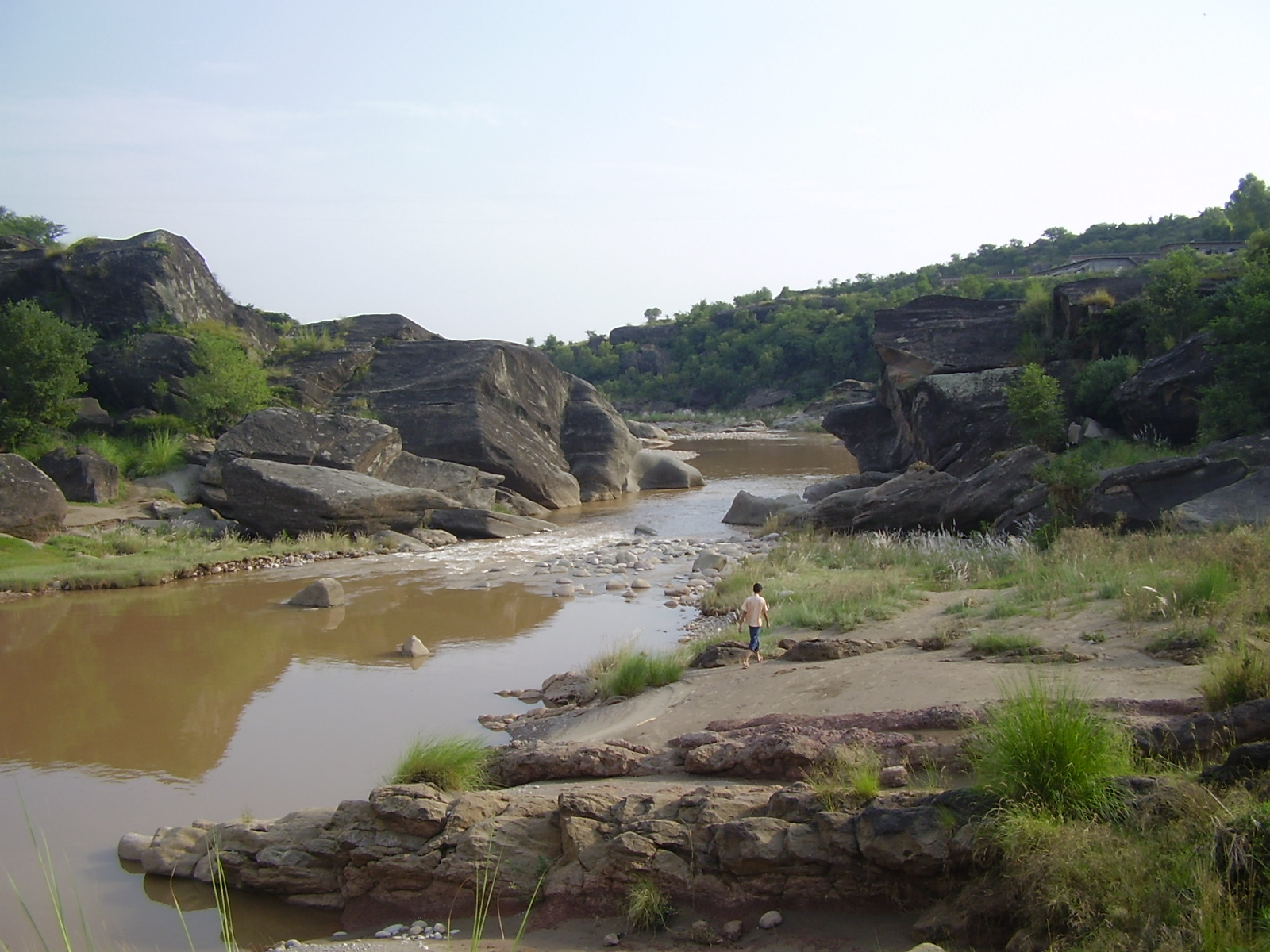 The Swaan river cuts through Himalayan hills and creates many gorges, one of them is here.